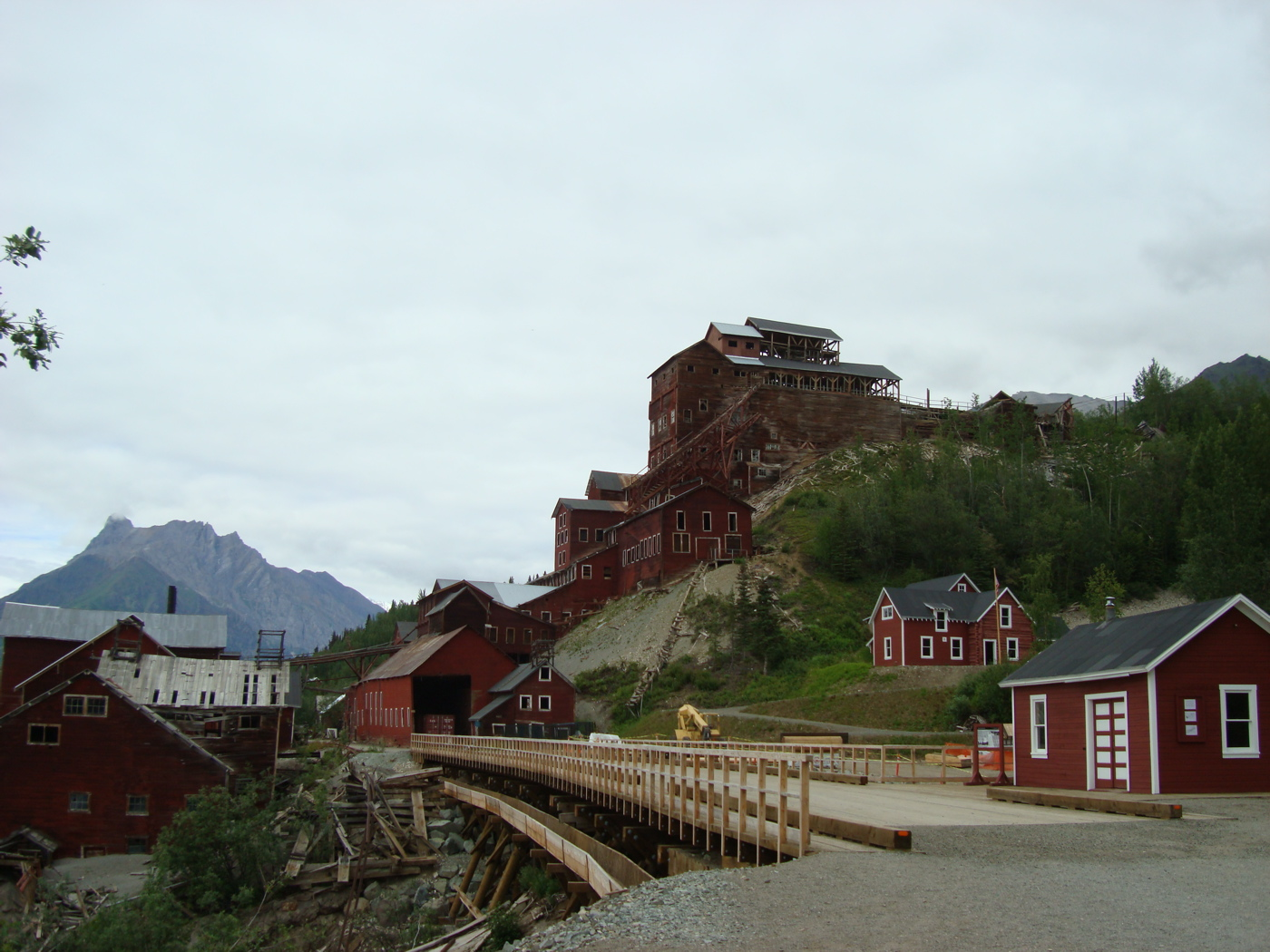 The mining camp in Kennecott, Alaska